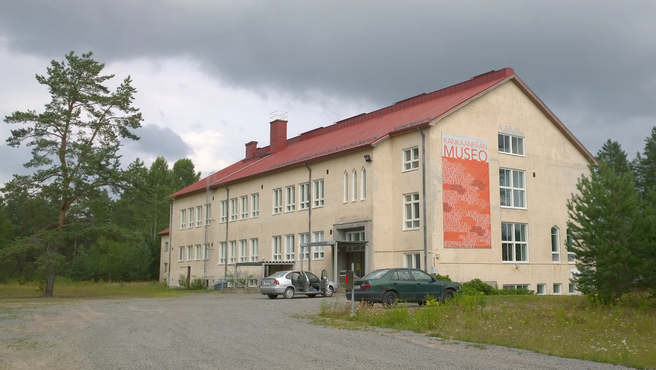 Kankaanpää City Museum